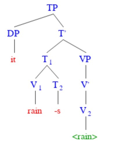 Syntax Tree. Pleonastic It. Sentences reads, "It rains." The website was used for drawing the syntax phrase structure tree.